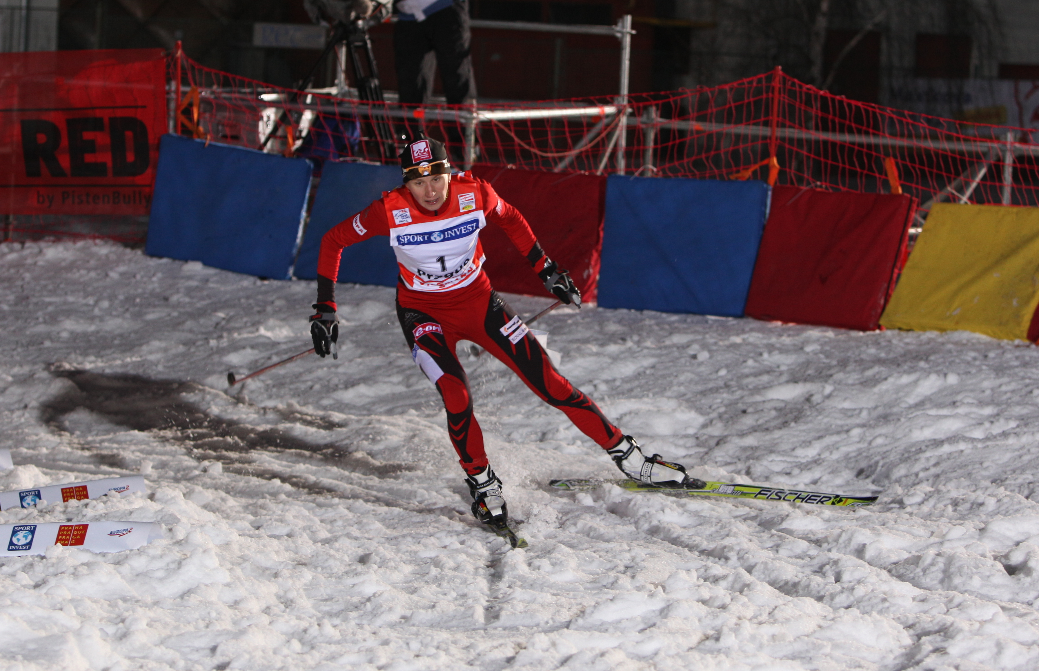 Alena Prochazkova at Tour de Ski - Ski Sprint Praha 2010